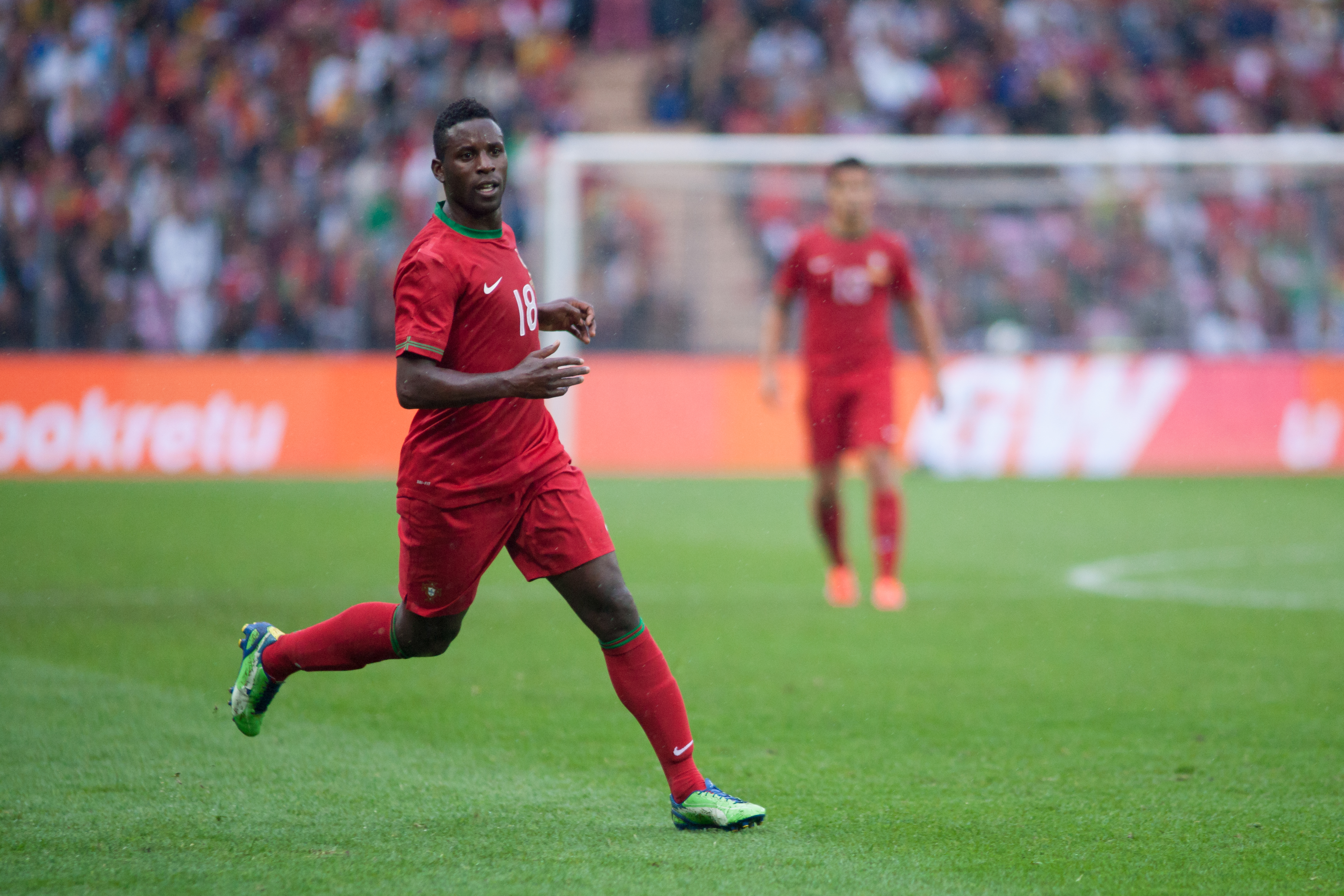 Croatia vs. Portugal, 10th June 2013